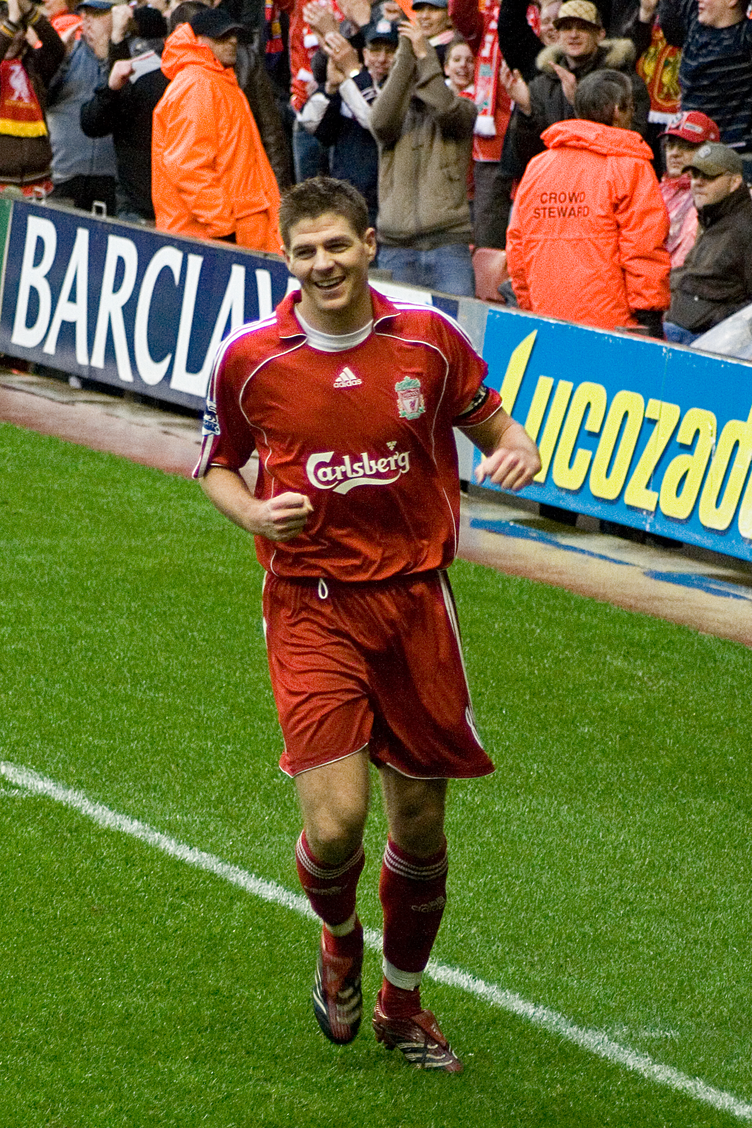 Steven Gerrard, Liverpool F.C. footballerThe big 4-0